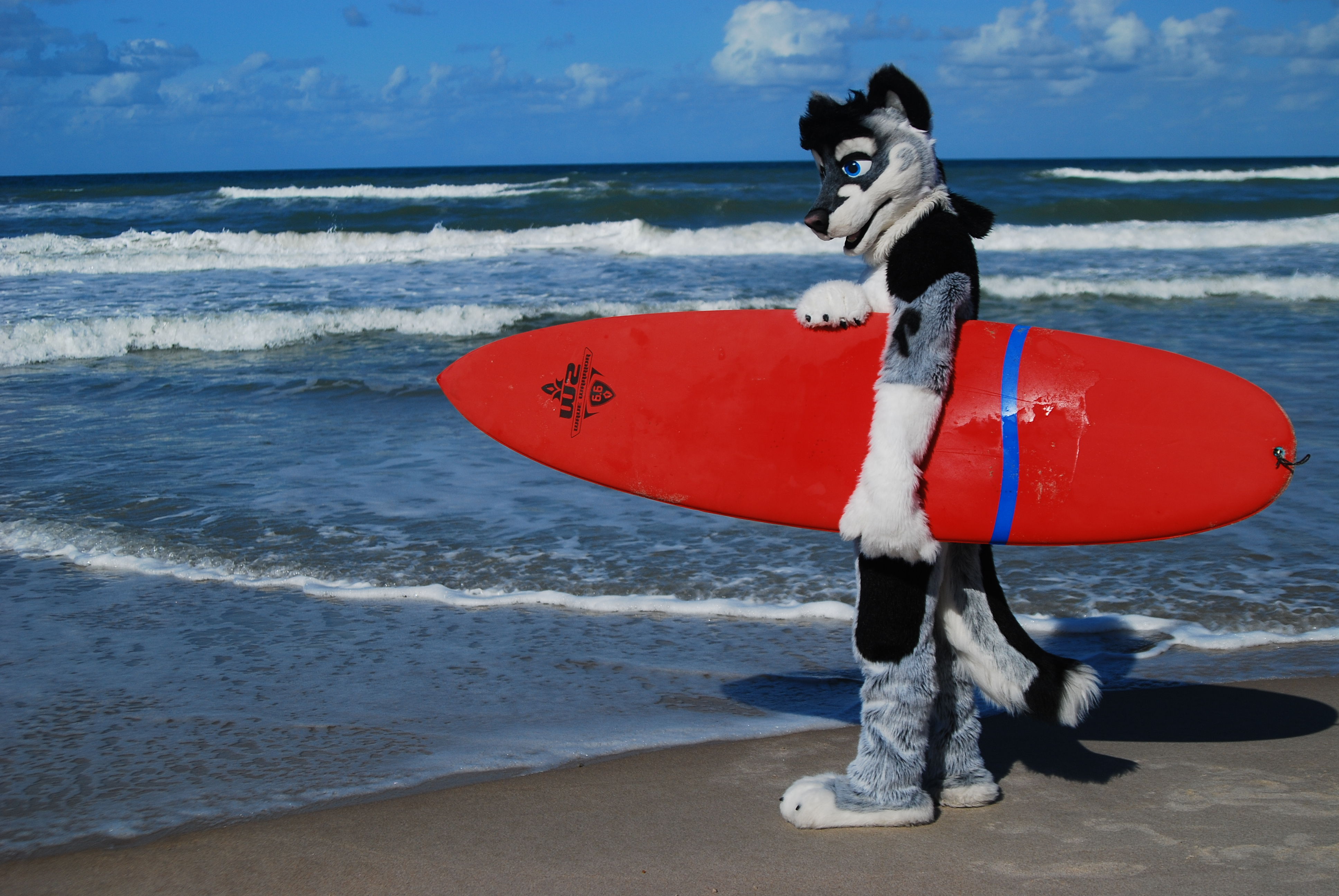 A fursuiter on the beach